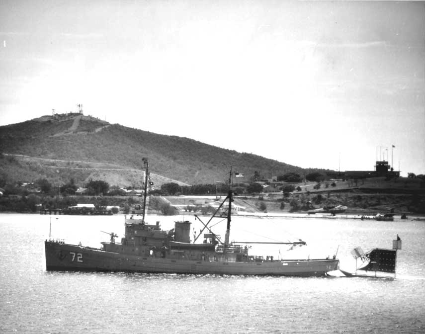 The United States Navy fleet ocean tugboat towing a target sled into Guantanamo Bay, Cuba, in a photograph taken from the anti-submarine warfare carrier